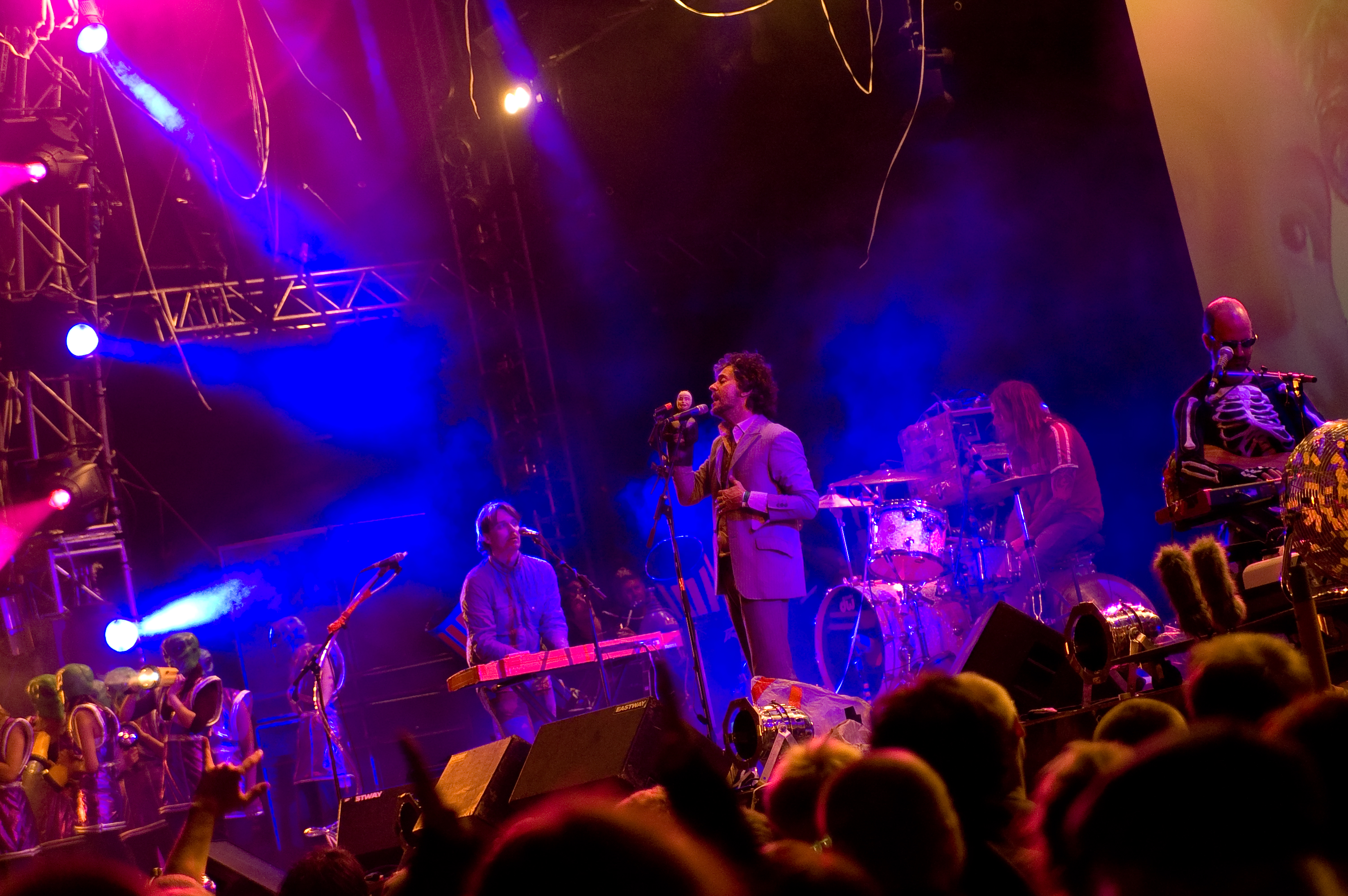 The Flaming Lips, Ruisrock Festival, Turku, Finland - July 6, 2007.